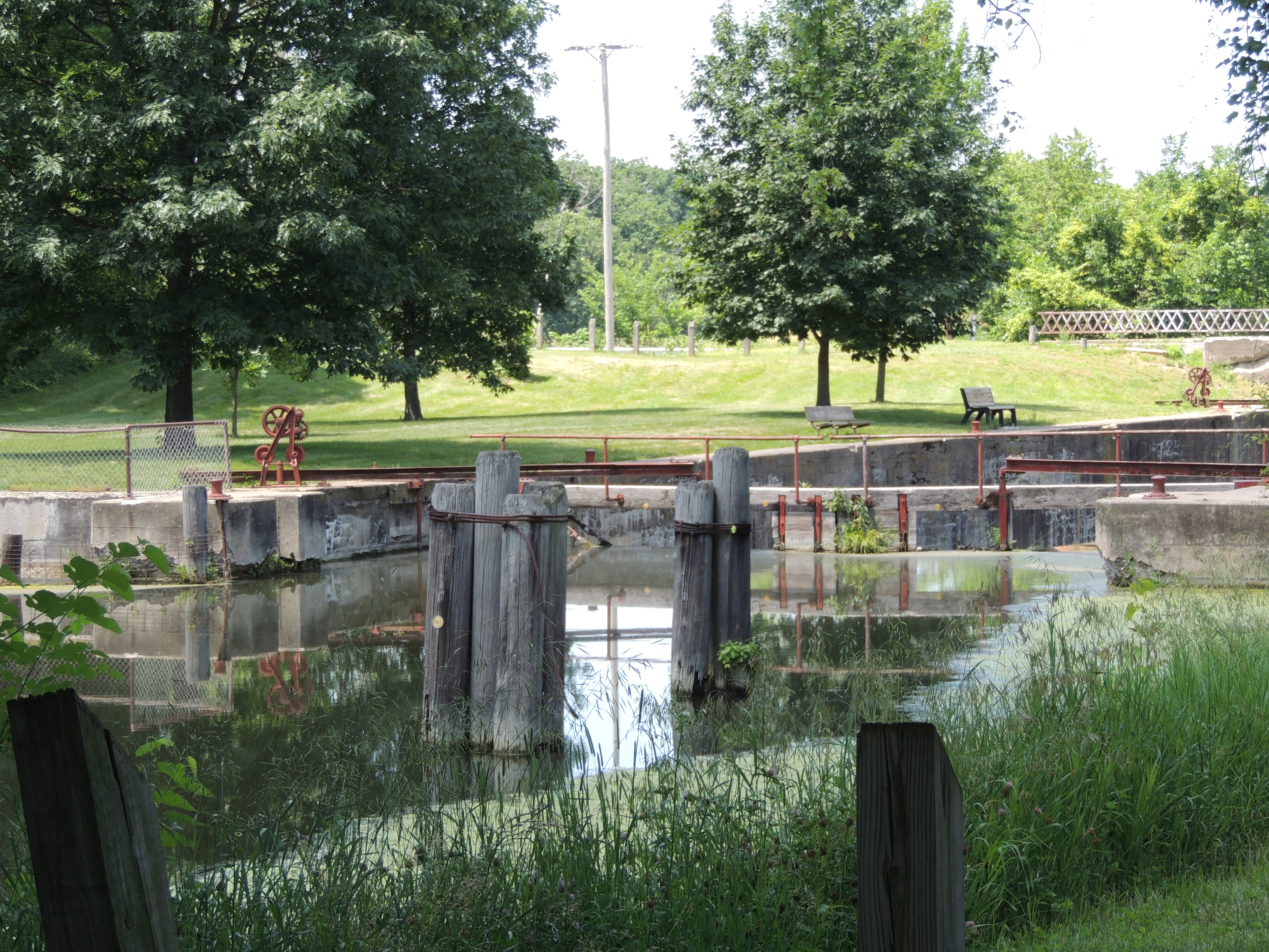 Looking East at Lock 24 on the Hennepin Canal Parkway State Park Trail. Lock 24 is in Geneseo Illinois